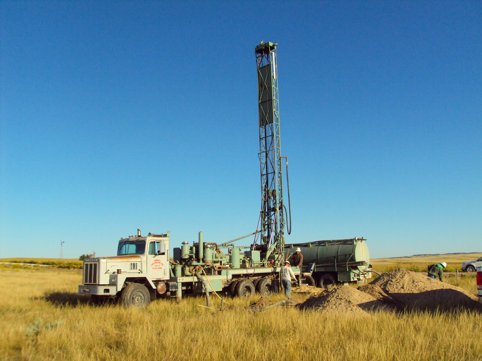 Crow Butte Mining, a subsidiary of Cameco, drills for uranium at the Wohlers Ranch on the Niobrara River near Marsland, Neb. Courtesy of the Wohlers Ranch.